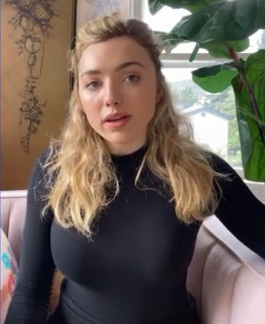 Peyton List in a video message for ATTN to prevent the Coronavirus in 2020